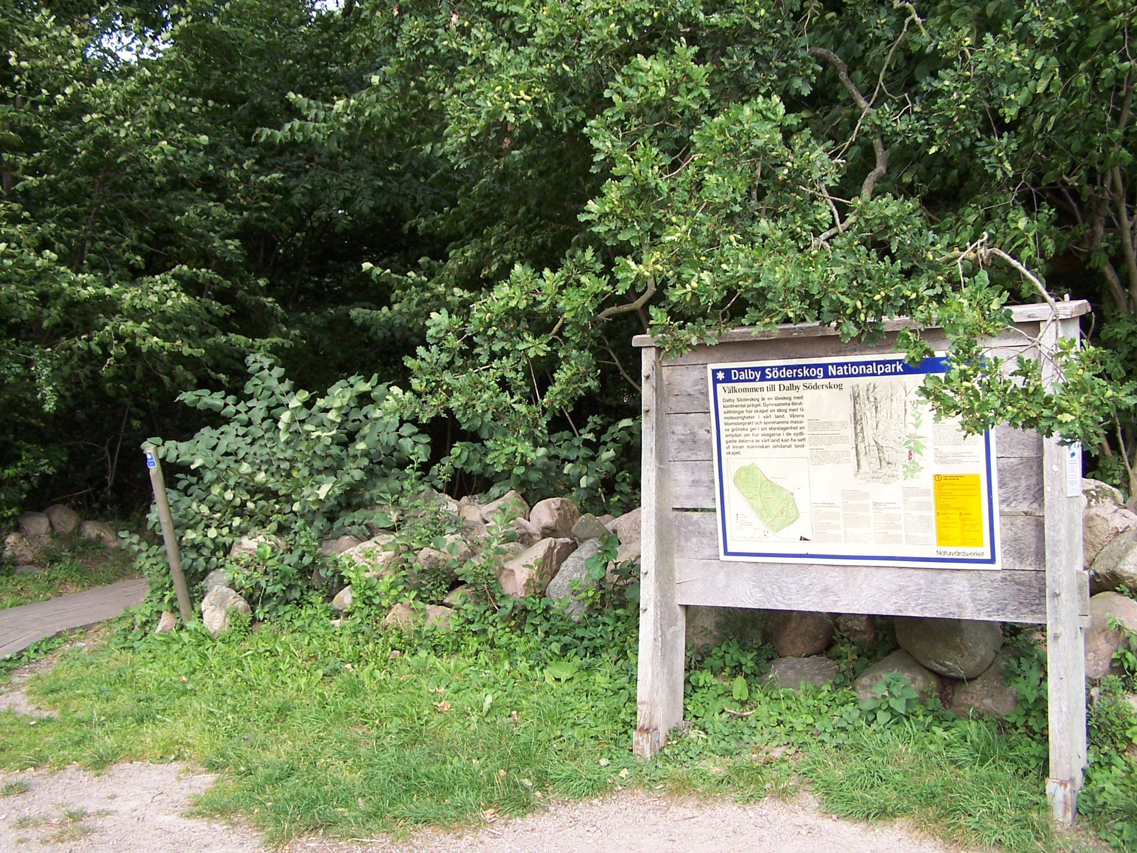 Dalby Söderskog National Park, Municipality of Lund, Sweden